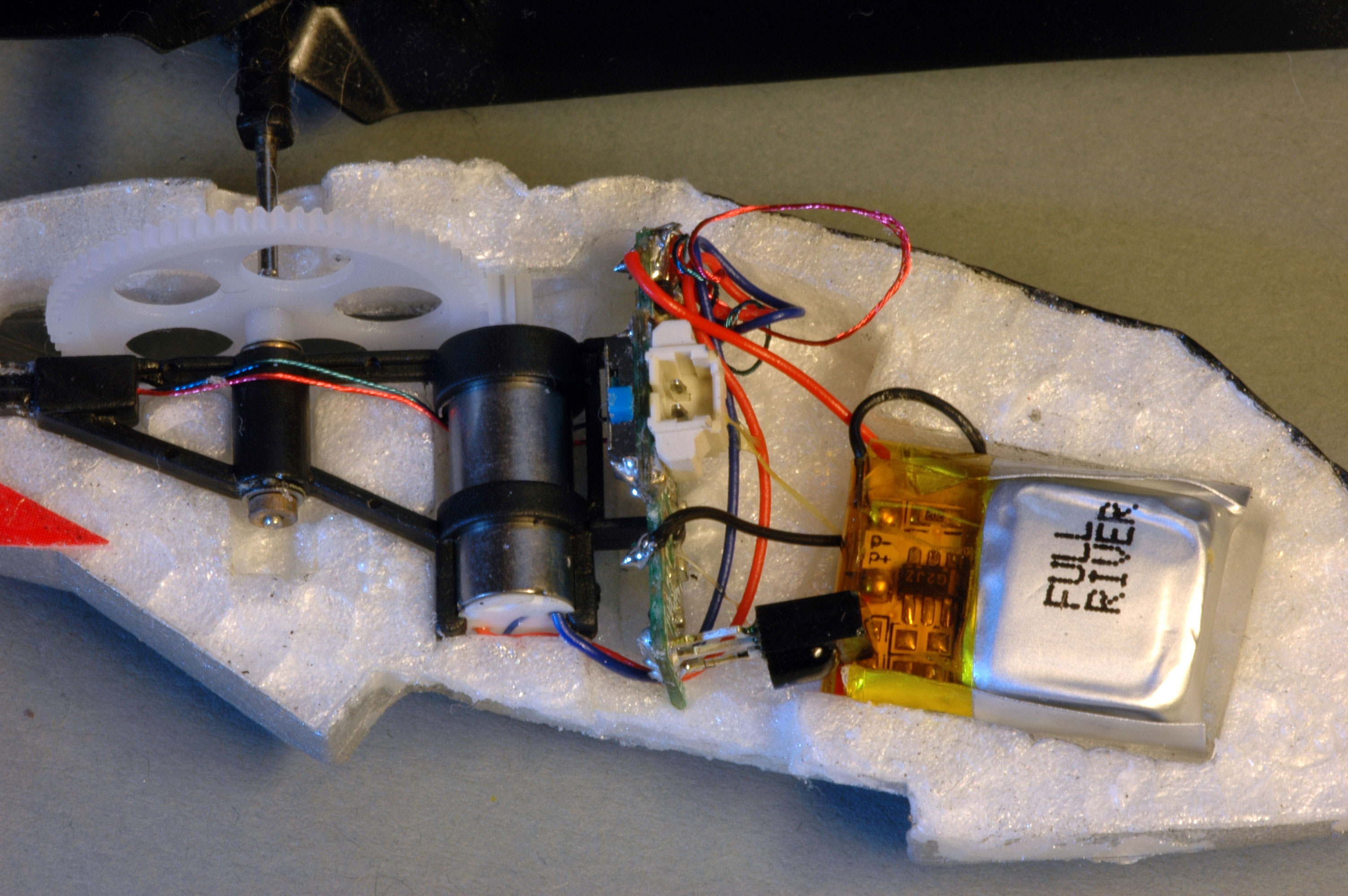 Insides of the toy helicopter